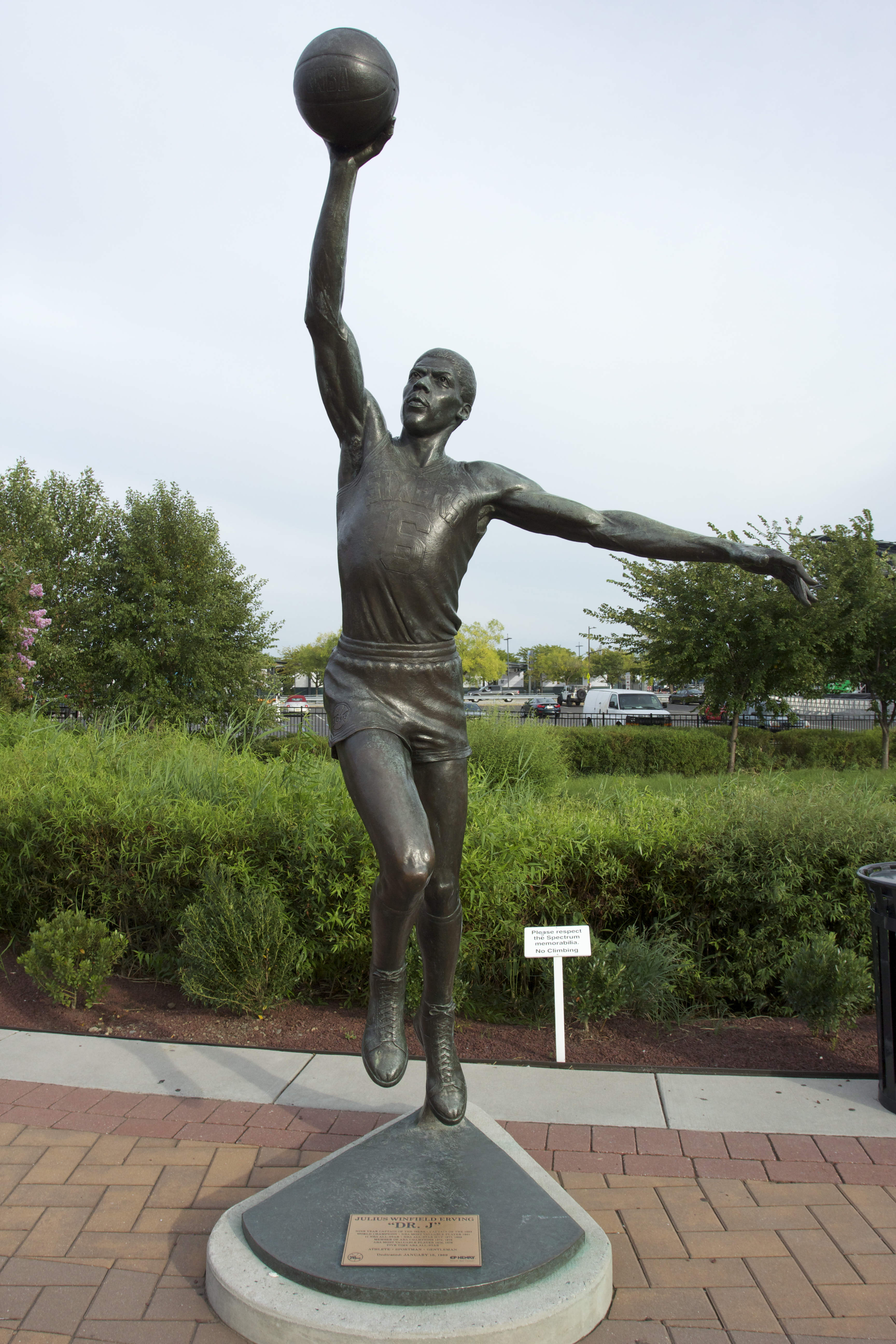 Sports statues in South Philadelphia